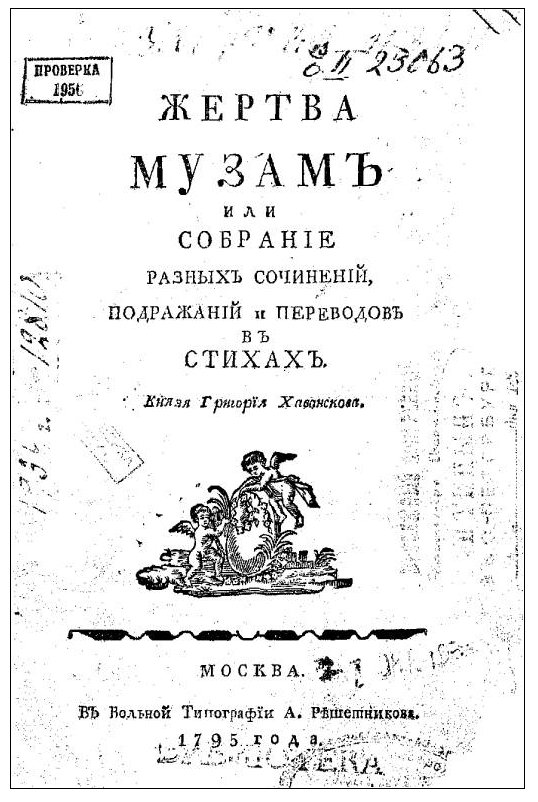 Grigory Aleksandrovich Khovansky - Zhertva Muzam 1795